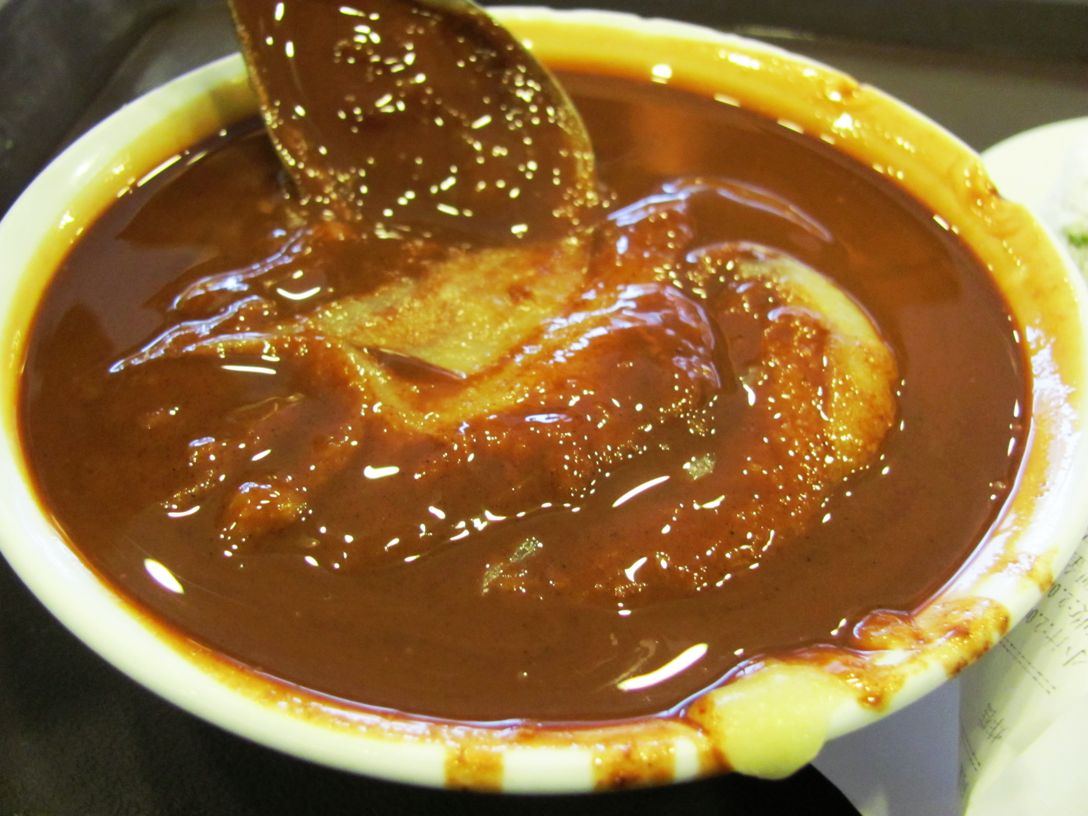 北京小吃面茶